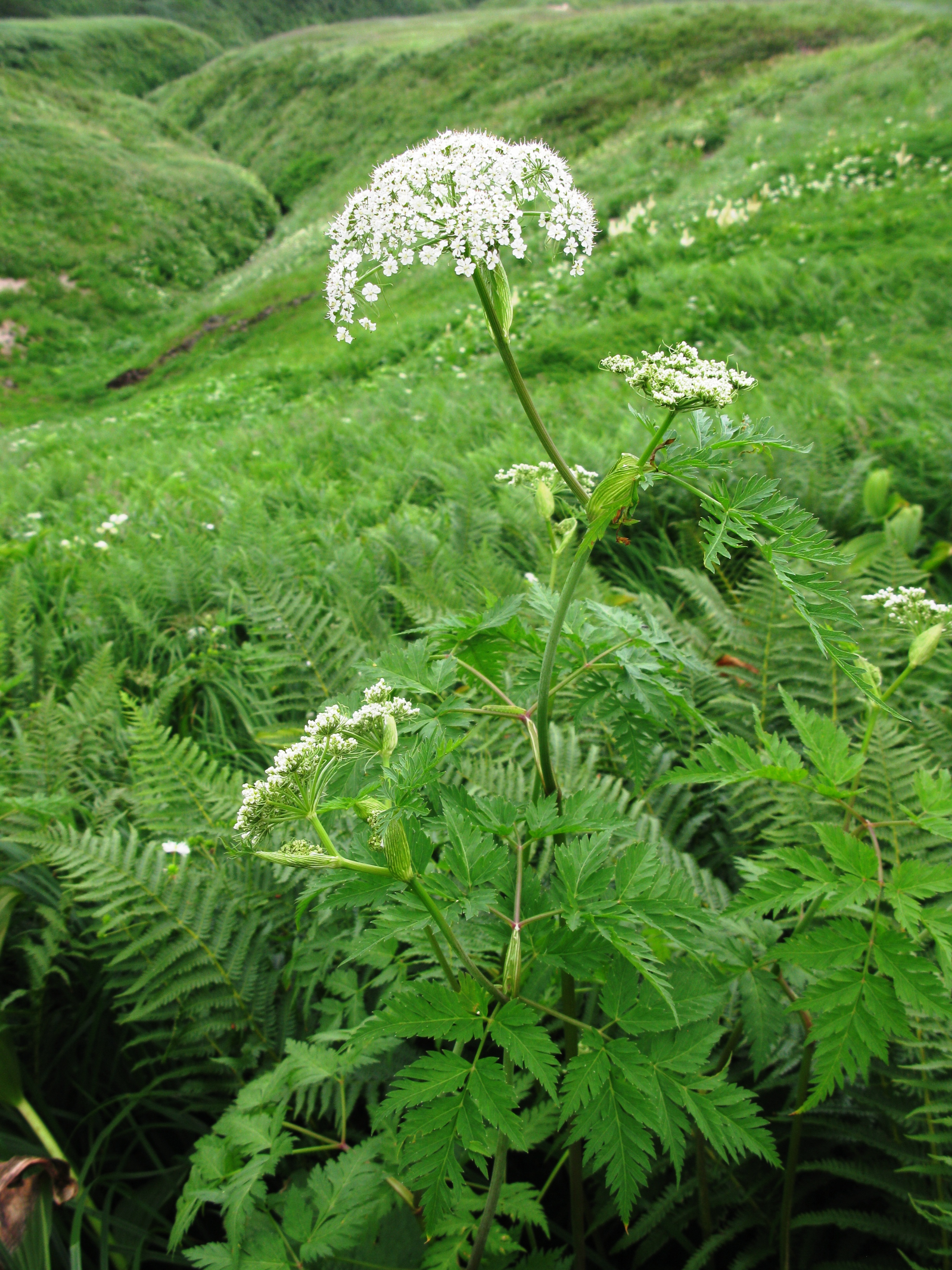 Conioselinum filicinum, Mt. Iide, Fukushima pref., Japan